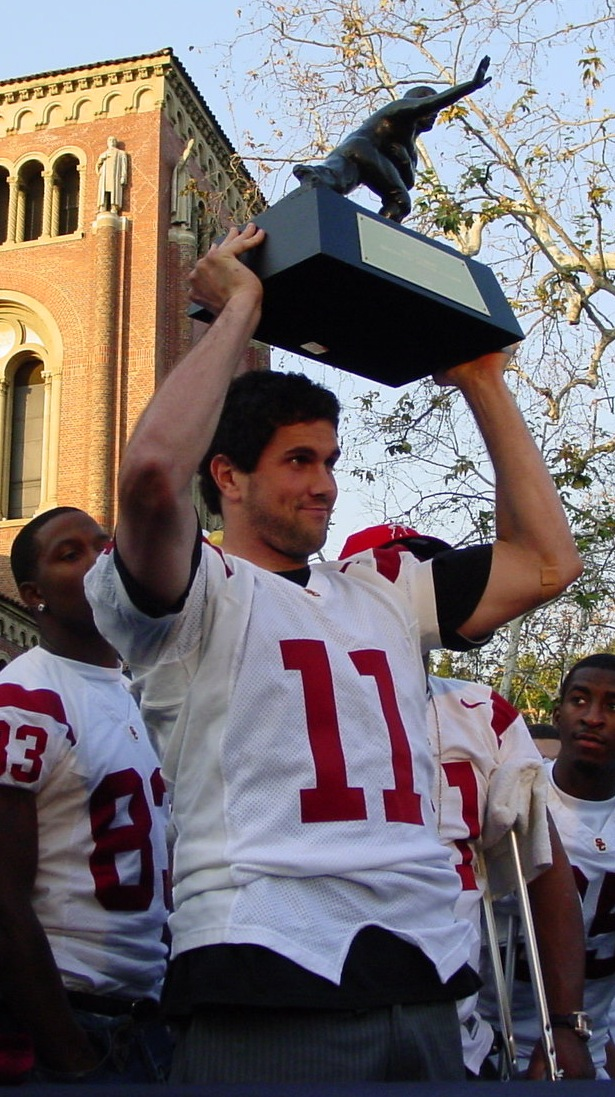 Leinart holding his Heisman trophy at USC's championship celebration held in winter 2005 on the USC campus in Los Angeles.